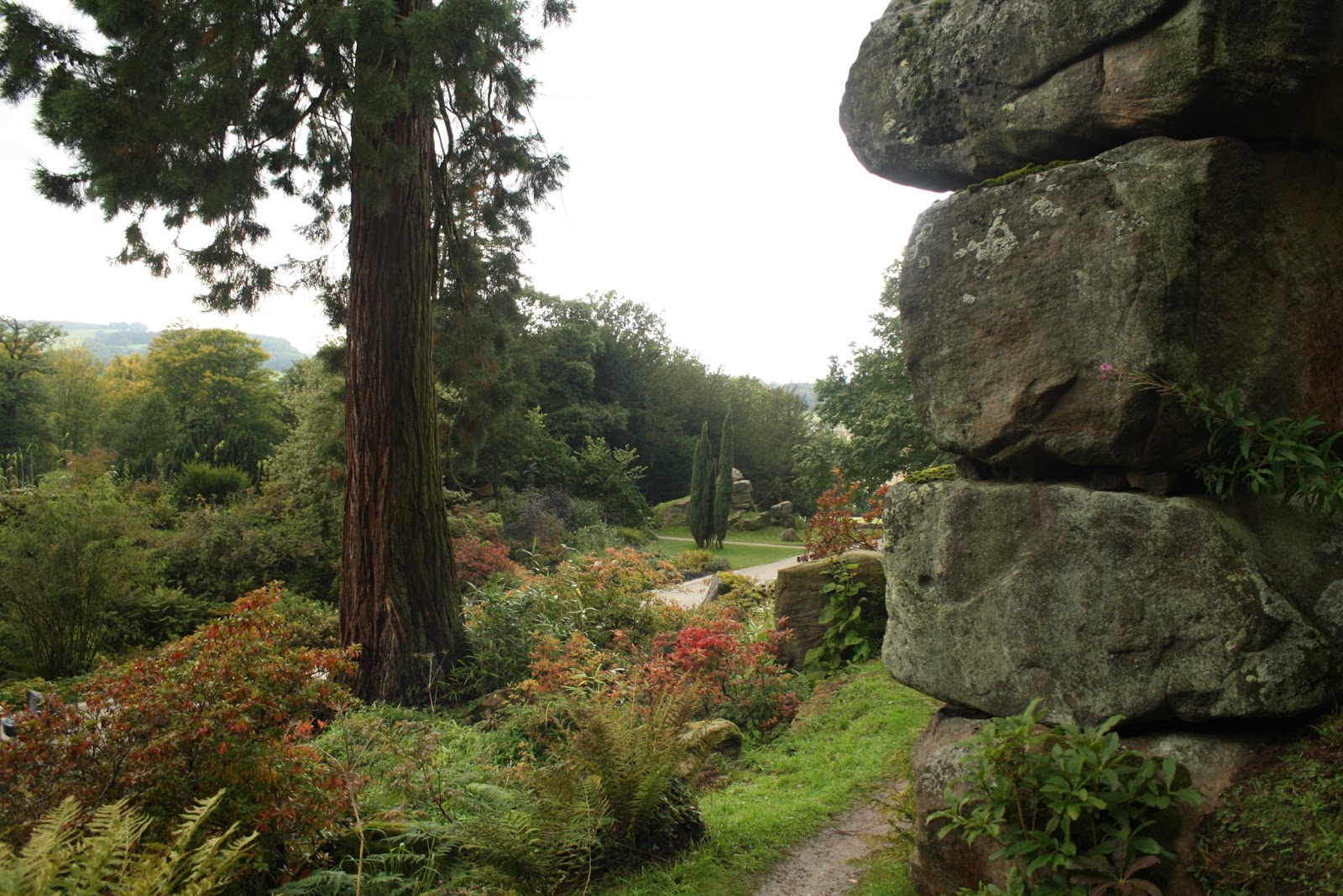 The Rockeries, Chatsworth House, England (2)